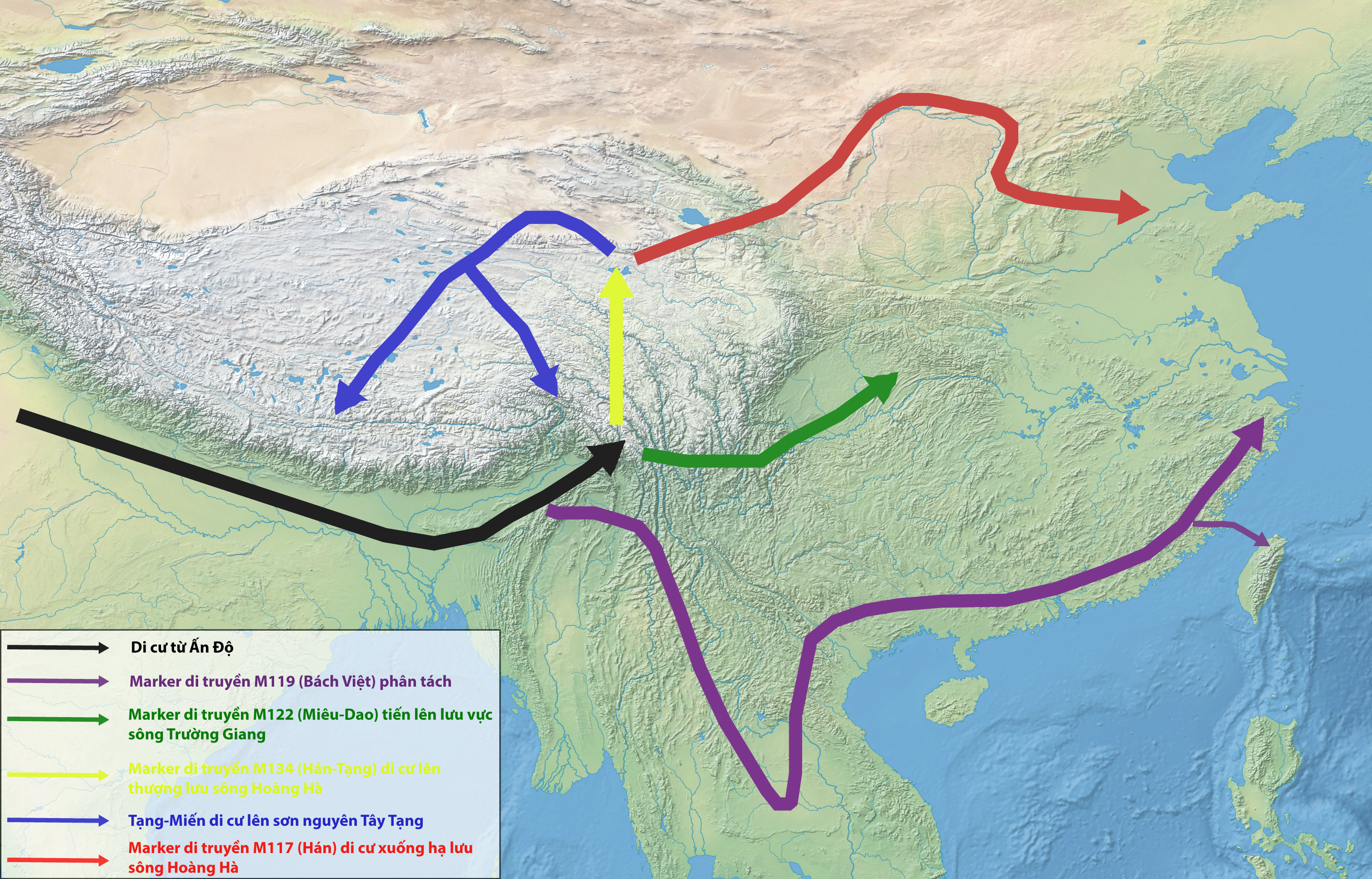 Austronesian, Hmong-Mienic, Sino-Tibetan migration routes from India. Source: Edmondson, Jerold A. and Gregerson, Kenneth J. (2007). The Languages of Vietnam: Mosaics and Expansions, Language and Linguistics Compass, 1/6: 732. [1] [2].